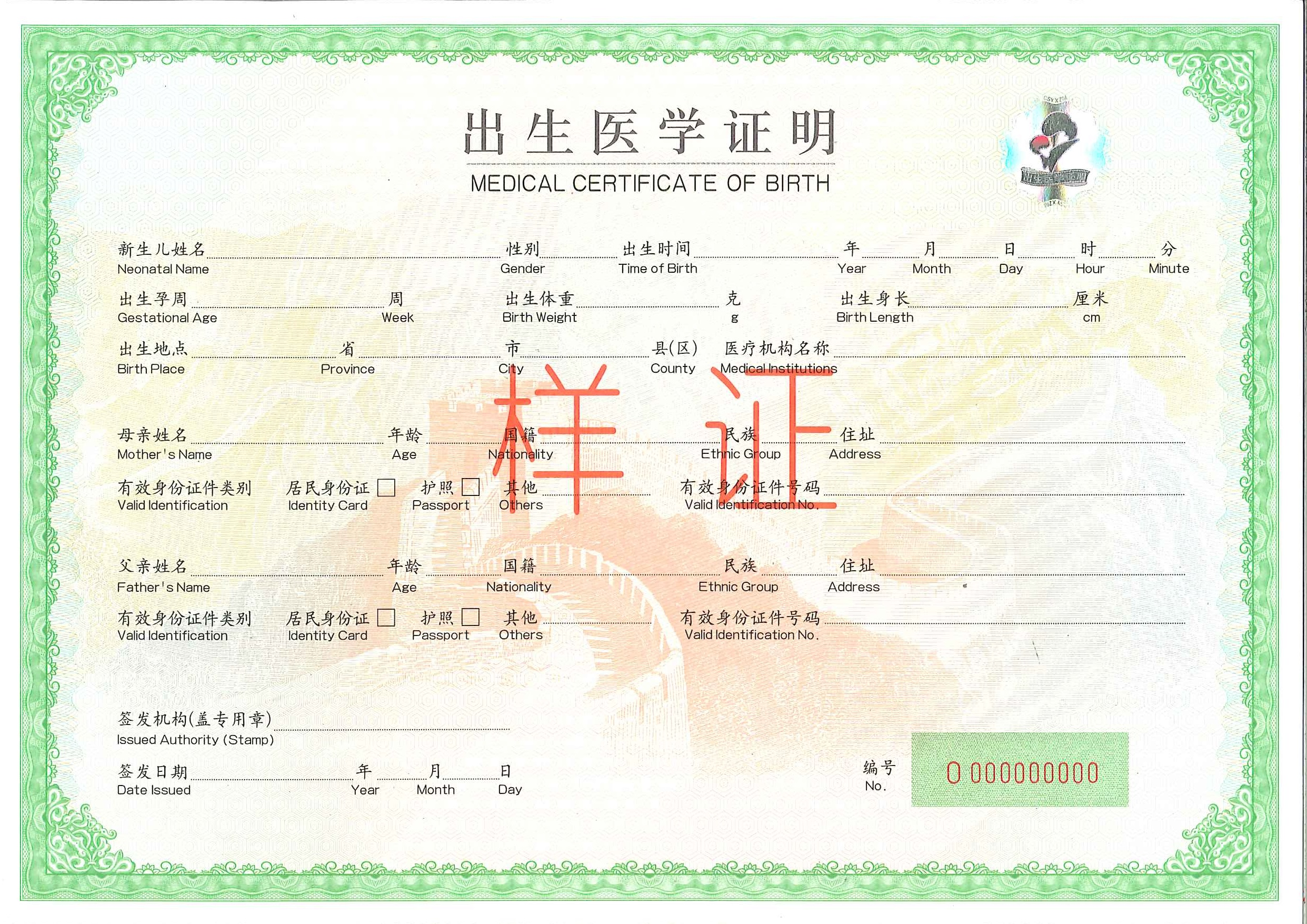 This is a specimen Medical Certificate of Birth, issued by the People's Republic of China for births occurring after 1996.